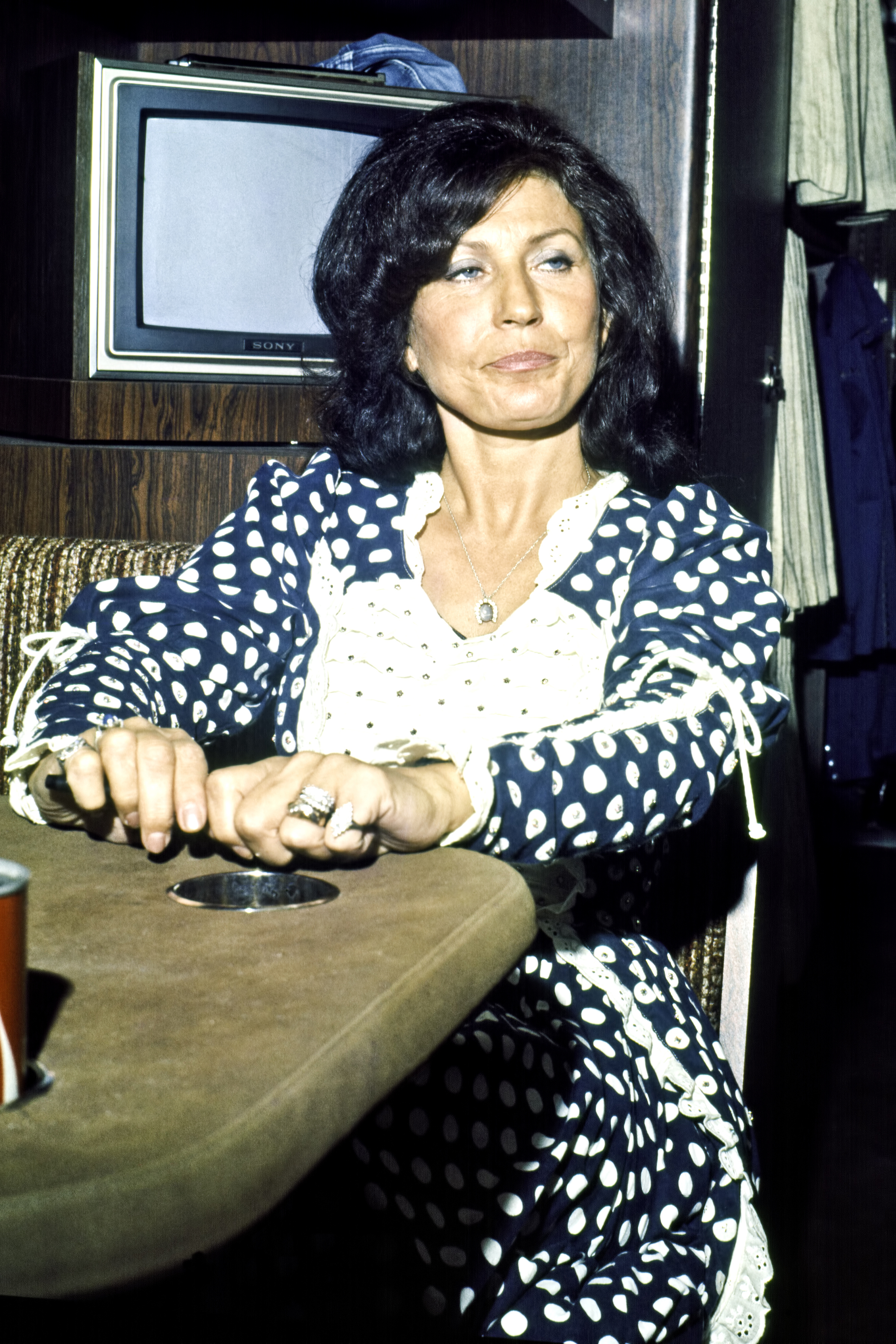 Loretta Lynn On tour 1975